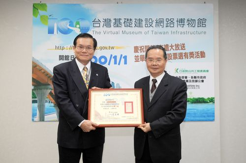 THSRC tops list of Taiwan’s 100 Best Infrastructure Projects (百大建設).